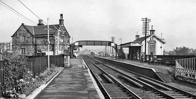 Bishopbriggs Station. View NE, towards Falkirk and Edinburgh; Edinburgh (Waverley) - Falkirk (High) - Glasgow (Queen St.) Main line.